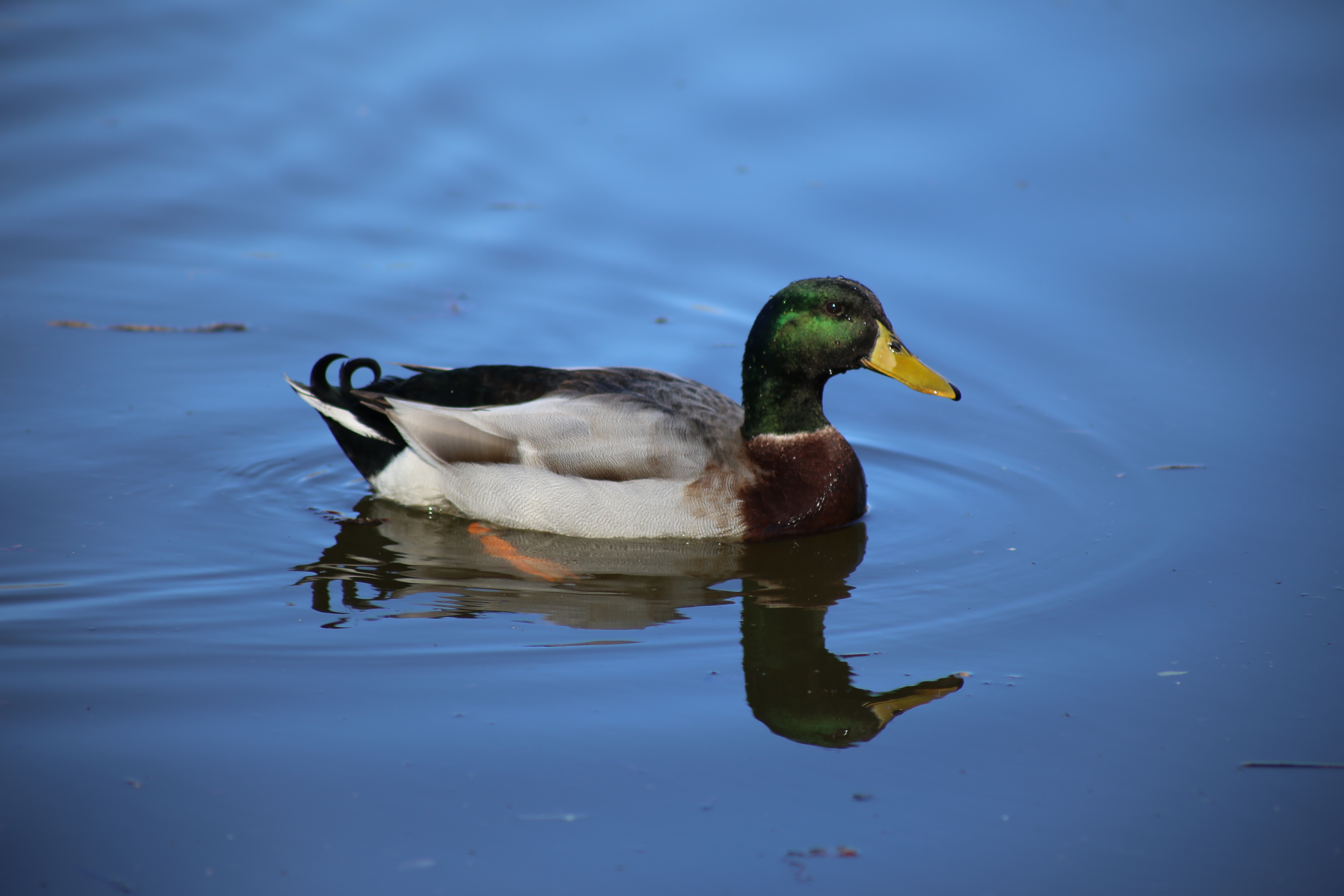 mallard